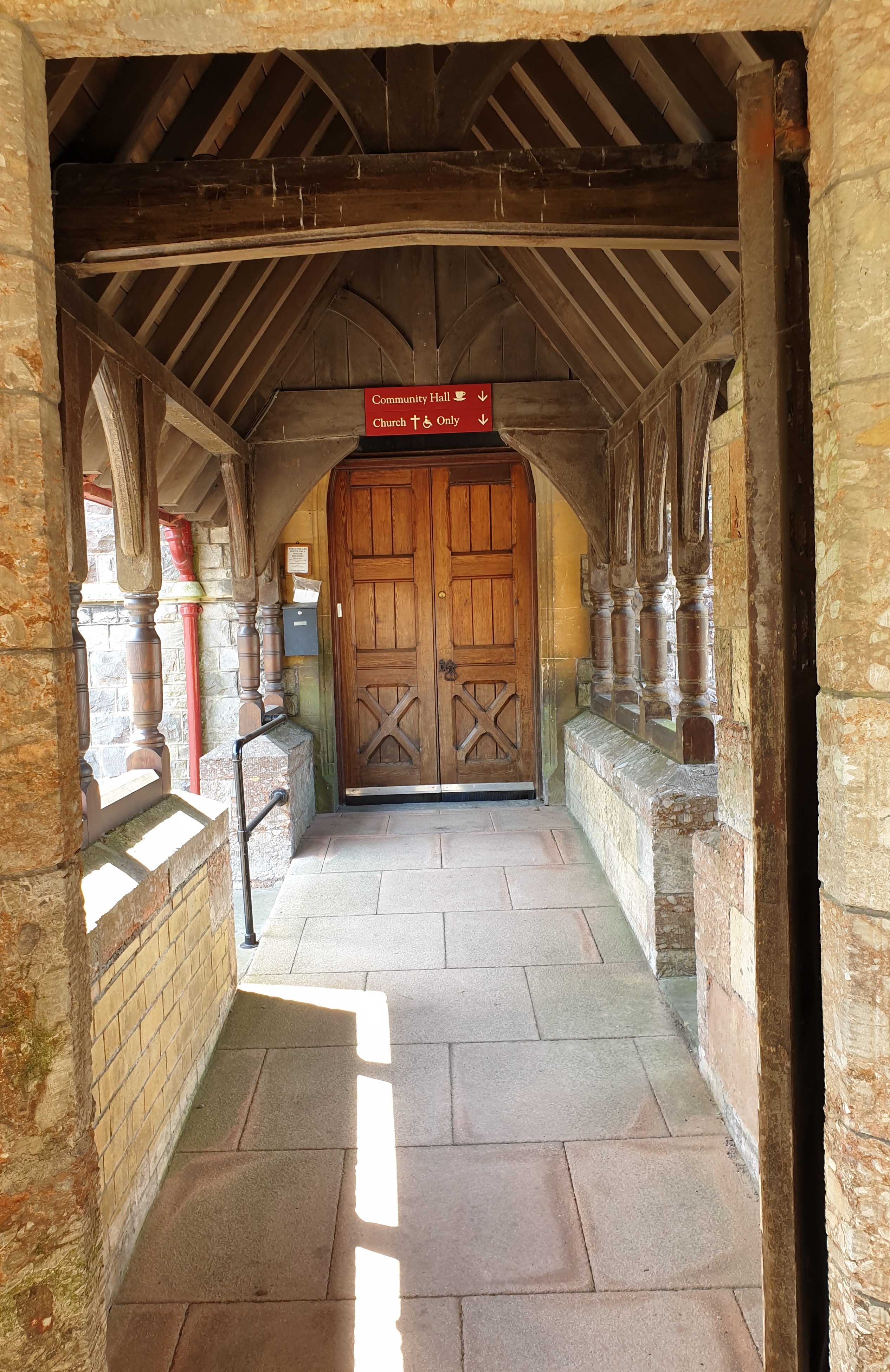 Cloister from the coachhouse to the schoolroom at Churchill Methodist church